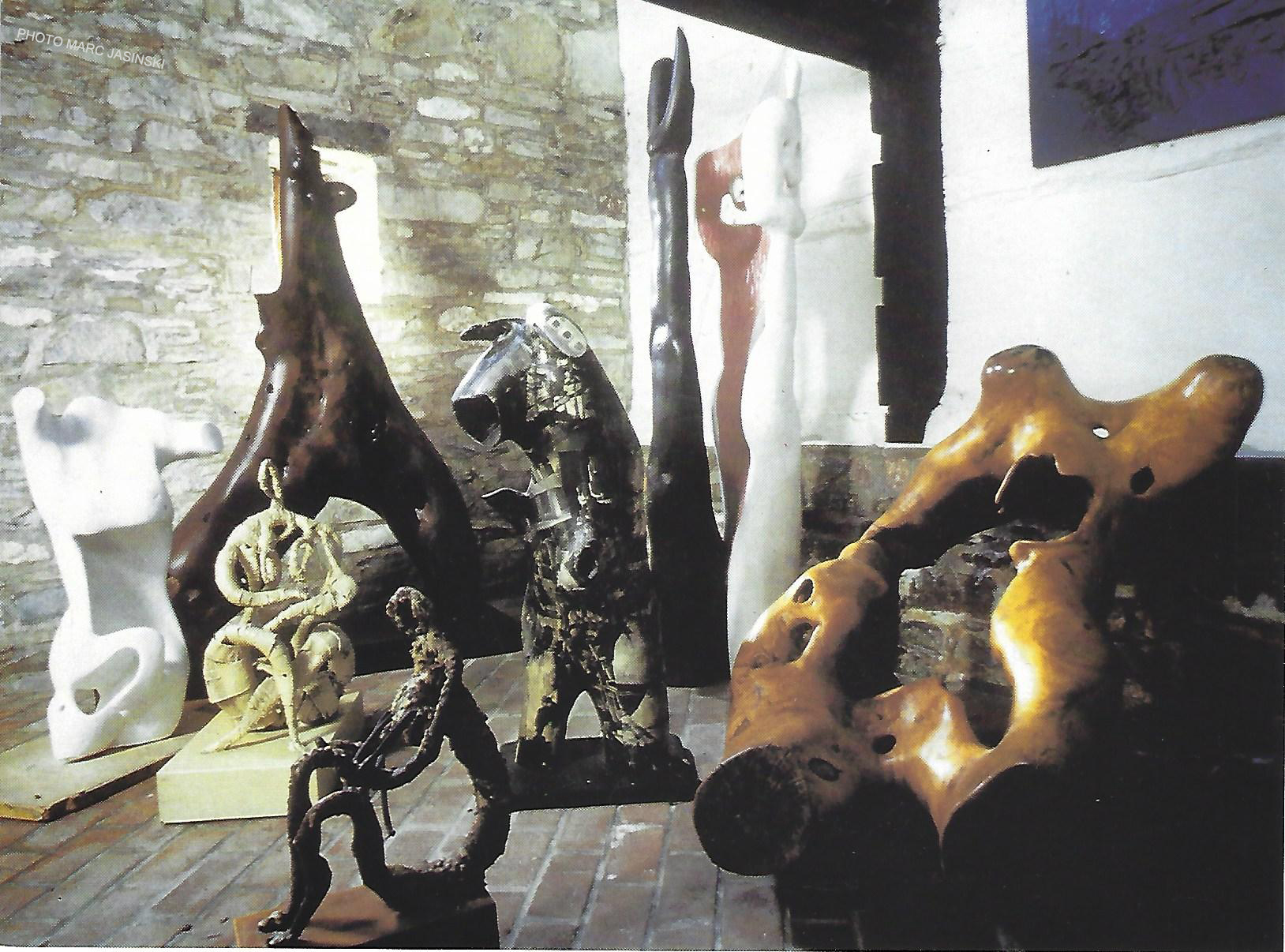 Sculptures by Stéphane Jasinski Sr - Invitation to the opening of his January 1985 exhibition at Galerie P. Vanderborght